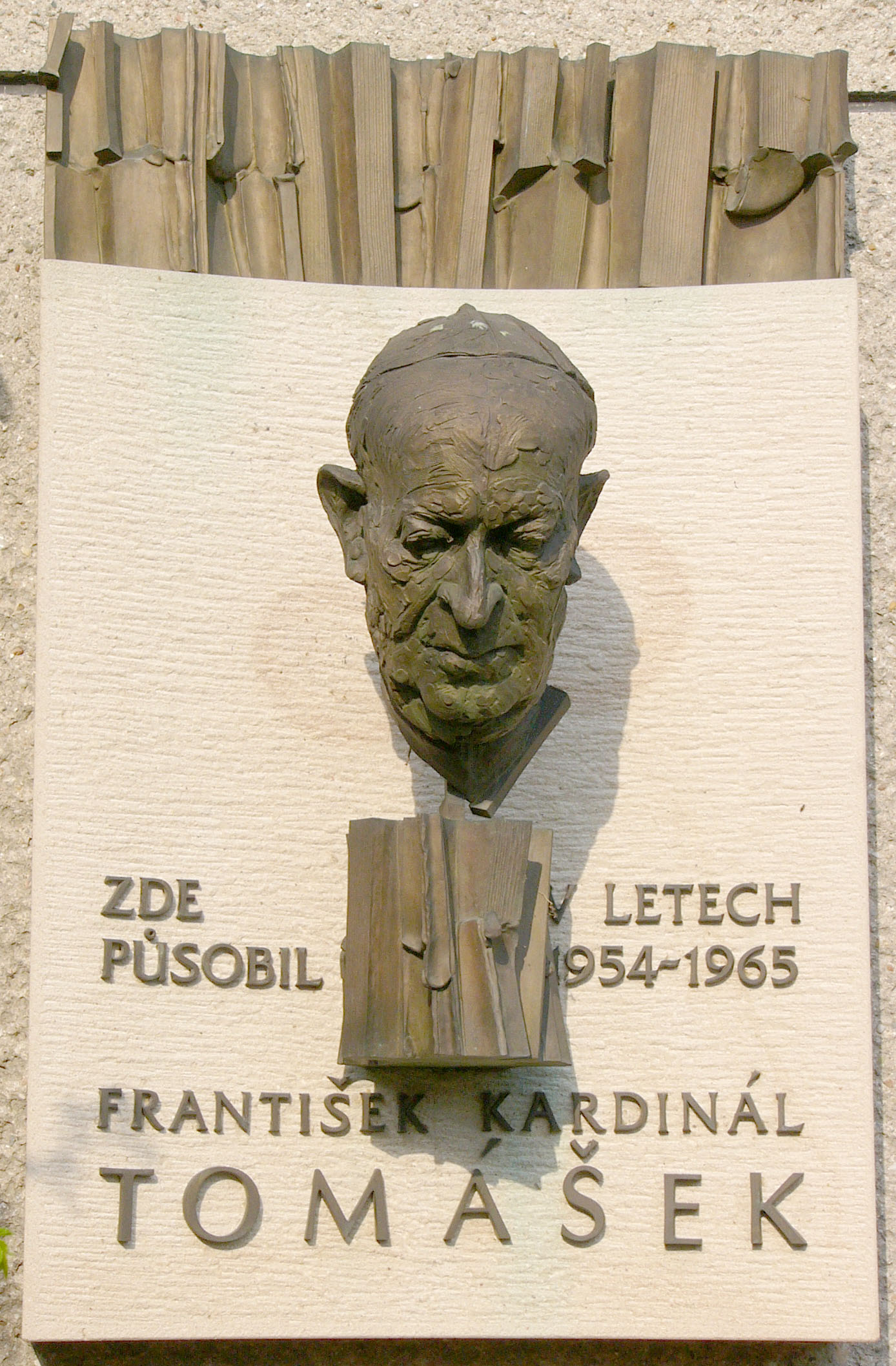 František Tomášek - memorial plaque in Moravská Huzová (Czech Republic). Made by sculptor Otmar Oliva in ????.